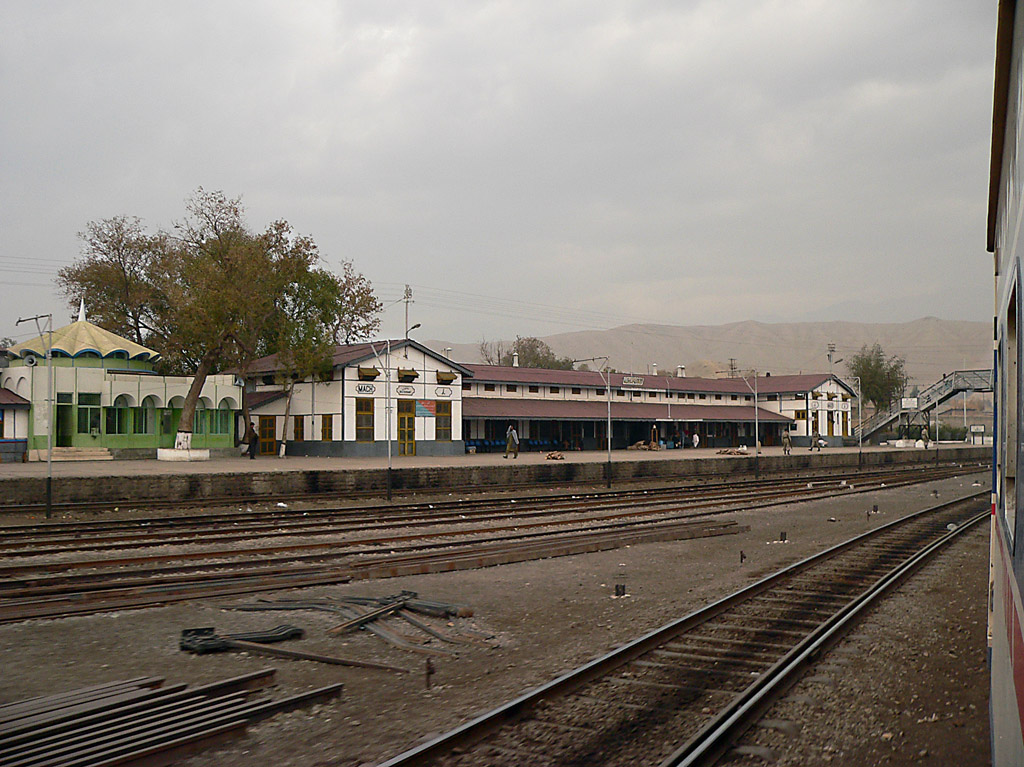 Departing Machh Railway Station. Machh is a small town located at a distance of about 50 km southeast from Quetta (70km by road), the provincial capital.